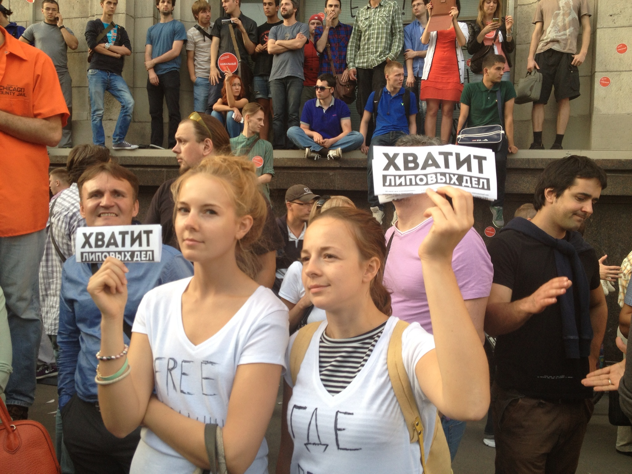 "Enough of fake cases" The protest against the verdict of Russian opposition Alexei Navalny. Moscow, 18 July 2013